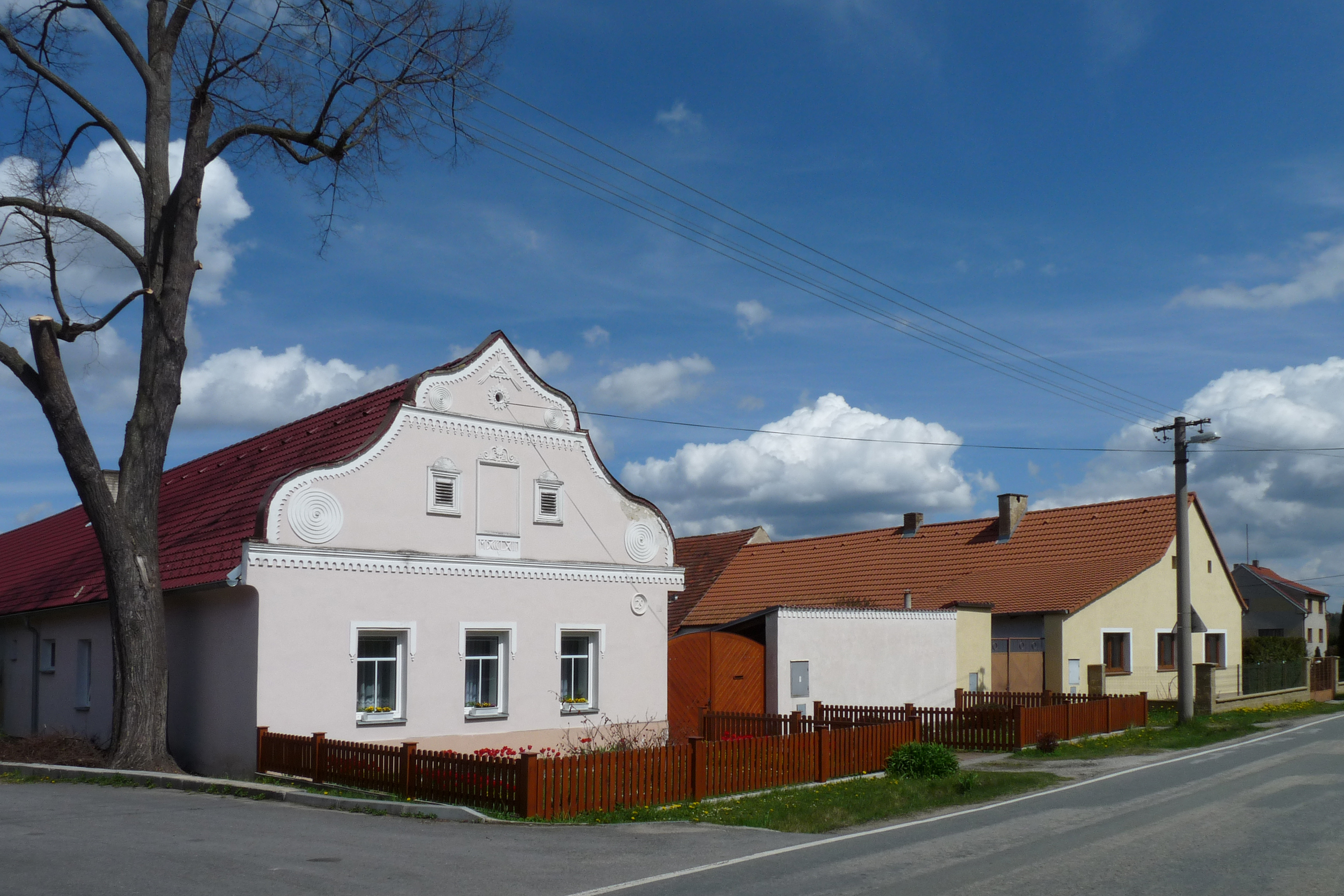 House No 29 in Branišov, České Budějovice, Czech Republic.